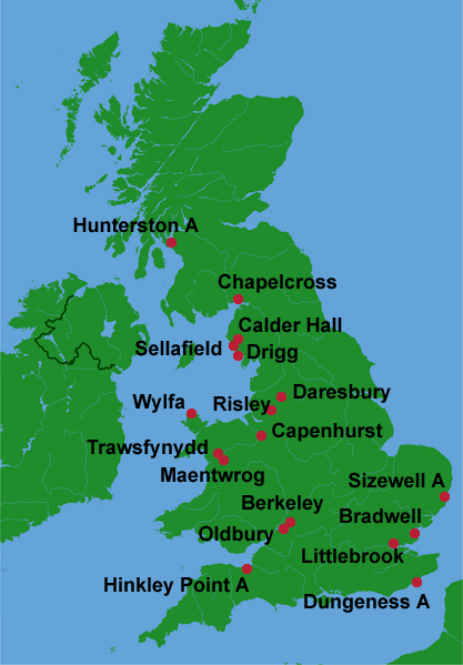 A map of the United Kingdom showing the locations of the 18 sites controlled by British Nuclear Fuels Limited (BNFL).